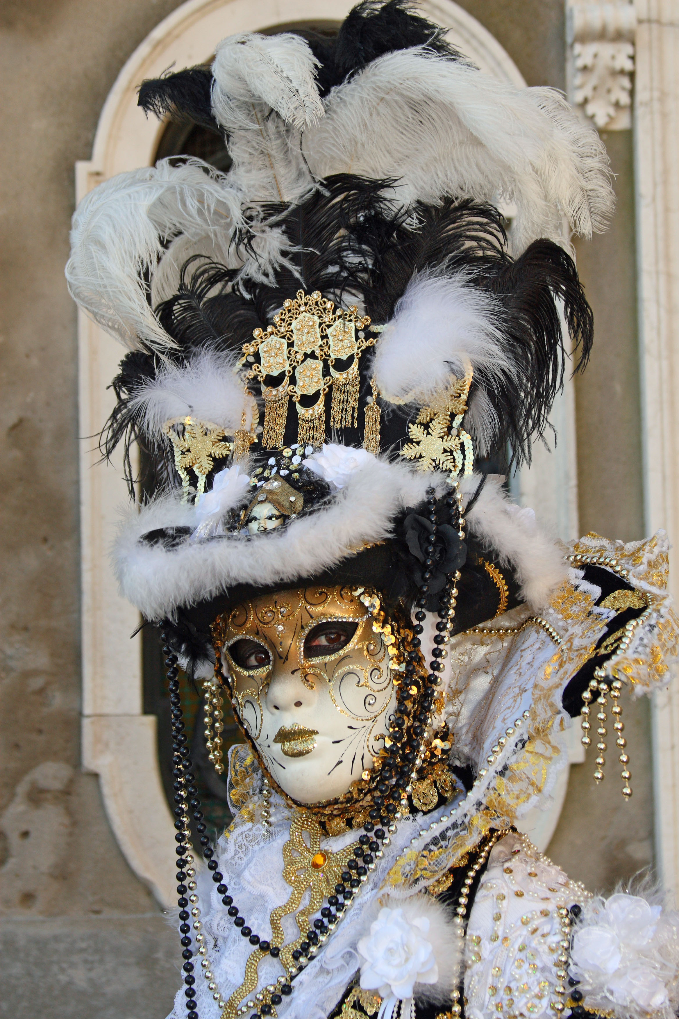 I took these photos near the Arsenale (Arsenal) in Venice, Italy during the 2010 Carnevale in February 2010. One of the photographers told me the costumed characters meet there in the morning on the first Monday and Tuesday of the Carnevale. There was a great turnout of costumes and room to spread out for individual shoot - what a blast. It was a bit nippy this morning but no one seemed to mind - what fun for all!